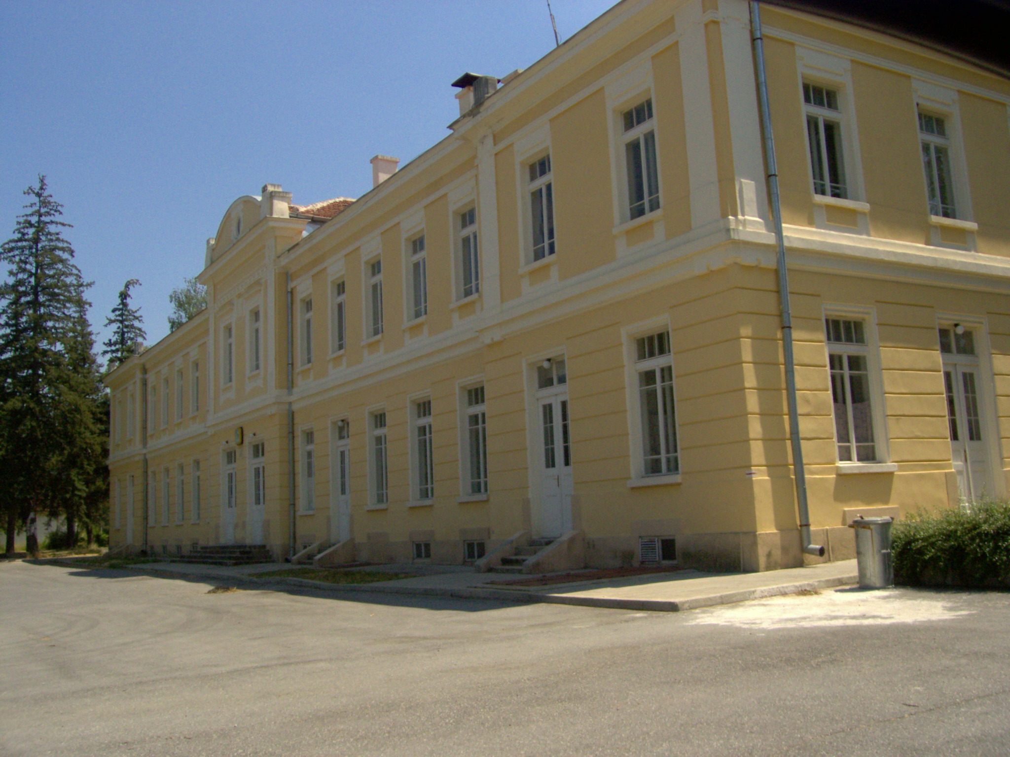 Railway station in Gyueshevo, Kyustendil Province, Bulgaria